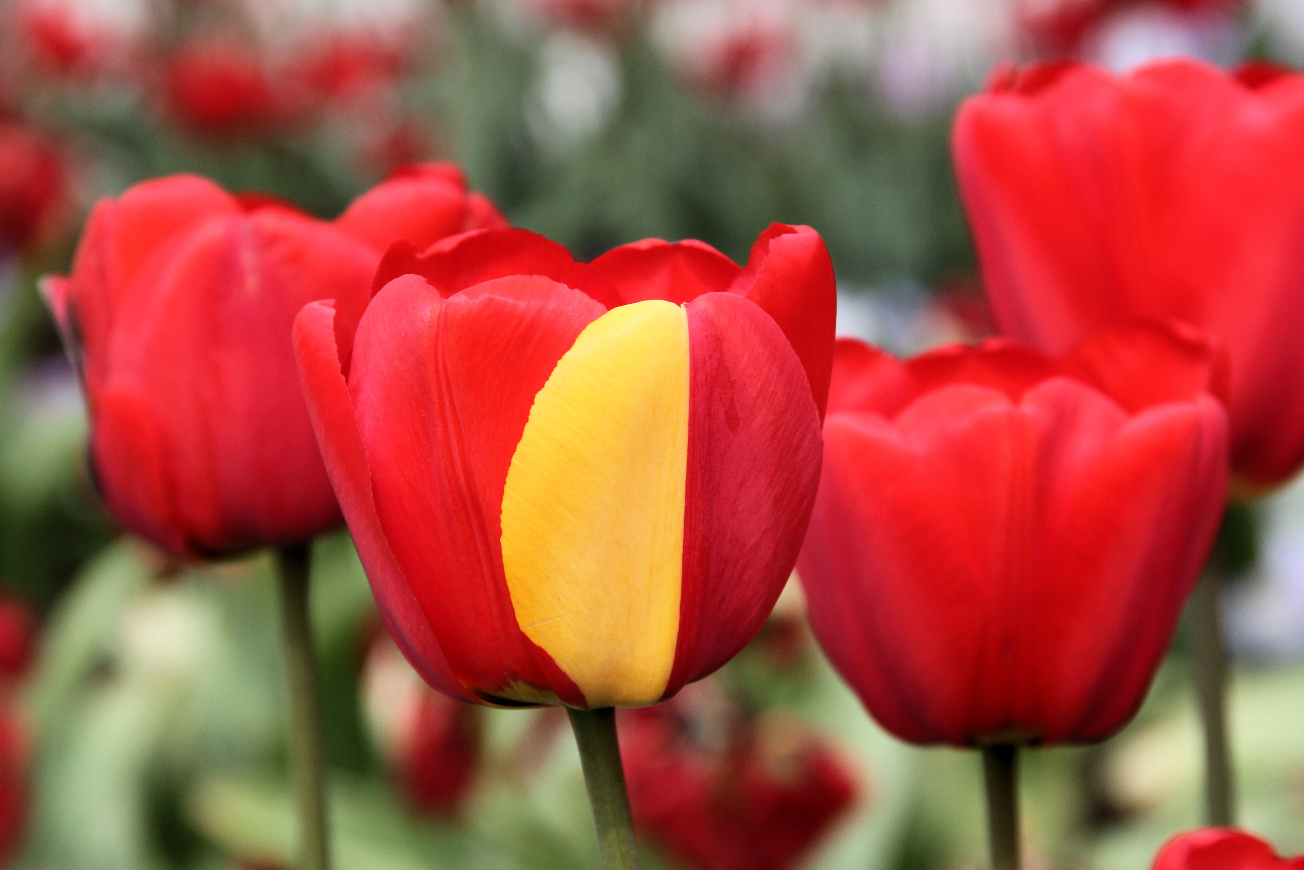 A red Darwin hybrid tulip "Apeldoorn" with a mutation resulting in half of one petal being yellow.